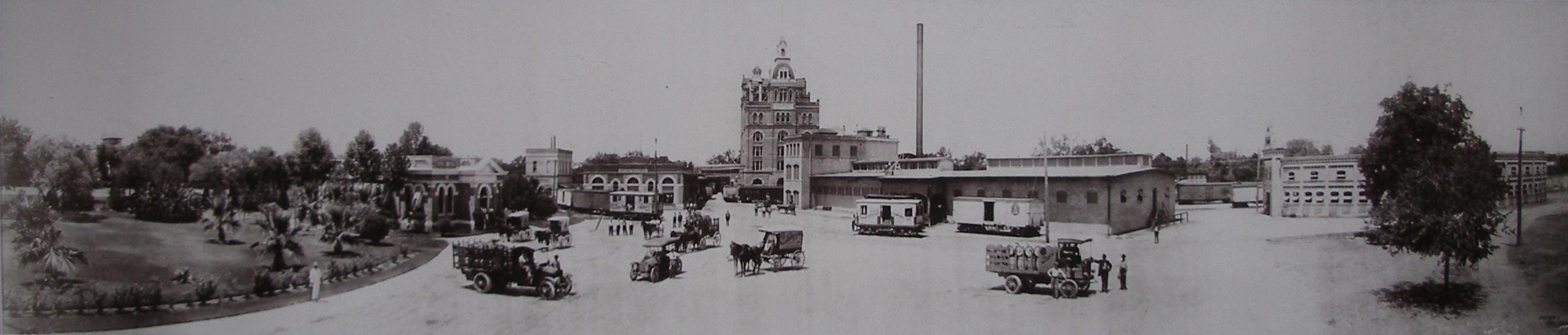 Panoramic photo of the brewery in 1910. Notice all three modes of beer transport are shown: train, horse drawn wagon, and delivery truck.